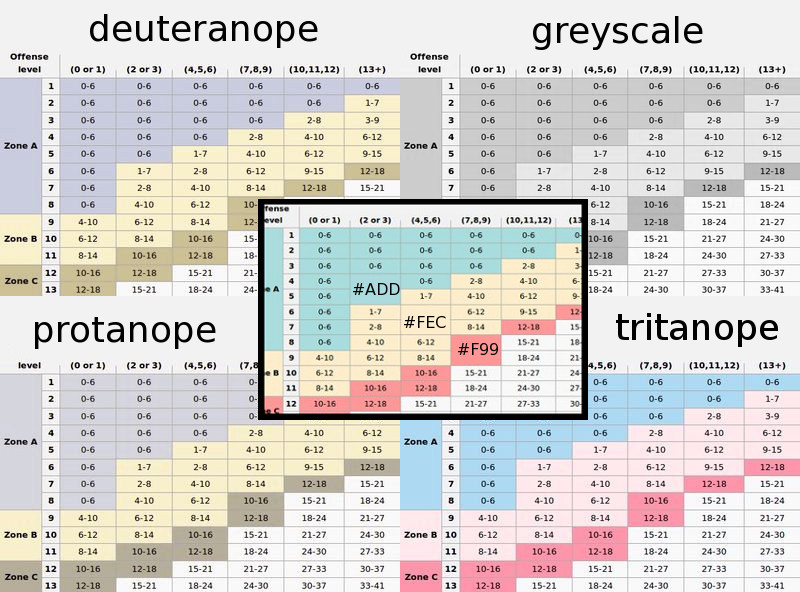 Analysis of color choices for a simple chart, table or graph that would be safe for most forms of color-blindness (colour-blindness). Really wanted to stay in the green/yellow/red as opposed to blues & yellows, but knew enough to realize that red and green is difficult for about 8% of males and 0.5% of females. Finally settled on three colors depicted in the center square. I used vischeck (online) to test that the colors were readily distinguishable for those with deuteranopia, protanopia, tritanopia, and finally in greyscale, analagous to achromatopsia. There are many other forms of color-blindness, but these are the four extremes, so if it works with these, it should work with the others. The selected colors in this example are: #ADD, #AADDDD, or rgb(170,221,221) #FEC, #FFEECC, or rgb(255,238,204) #F99, #FF9999, or rgb(255,153,153) They can be seen at United States Federal Sentencing Guidelines.